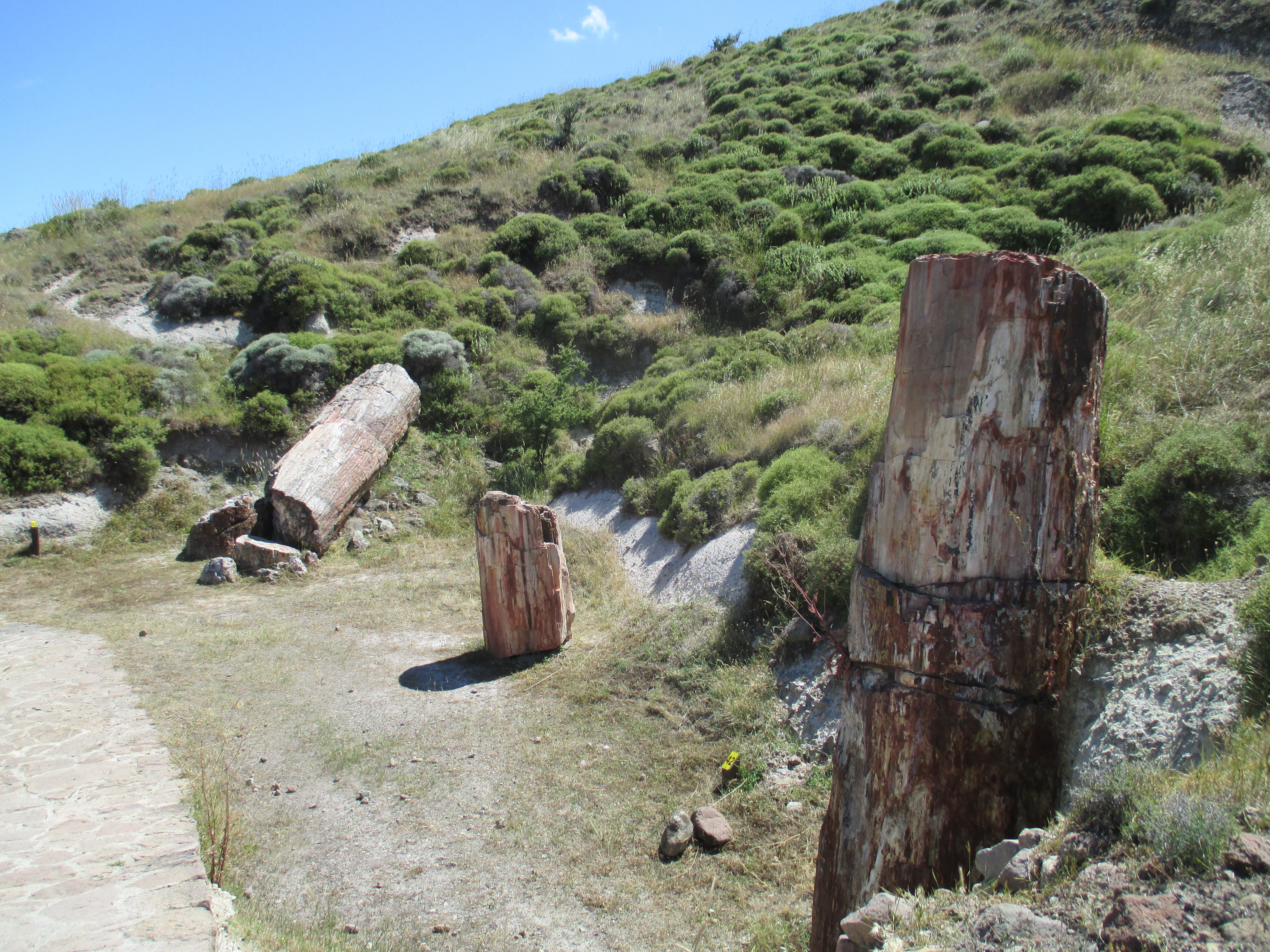 Petrified forest of Lesbos (Lesvos), Greece.